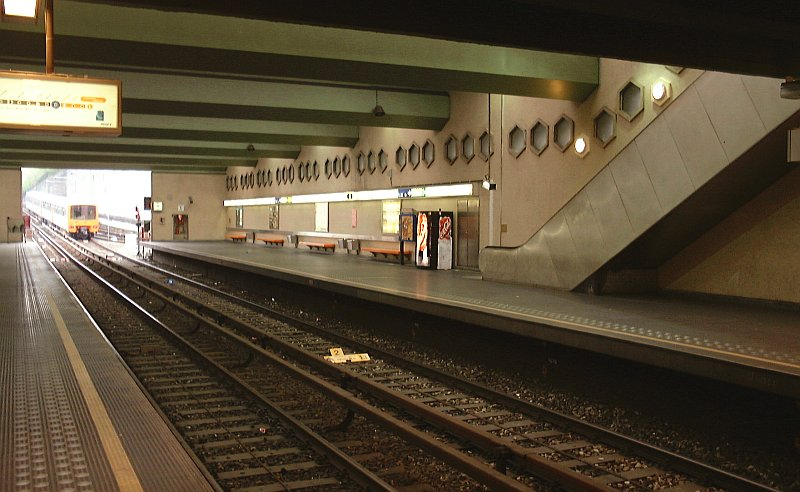 Platforms of Delta station, Brussels metro